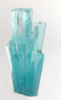 Beryl (Var.: Aquamarine) Locality: Shengus (Shingus), Haramosh Mts., Skardu District, Baltistan, Northern Areas, Pakistan (Locality at ) Wow...what more can you ask of an aqua "spray" than this? it has intense color, glassy lustre, striking 3-dimensionality, and is simply the epitomy of the classic 1987-88 finds of this style (as seen on the 1988 show poster from Tucson) 10 x 3 x 3 cm